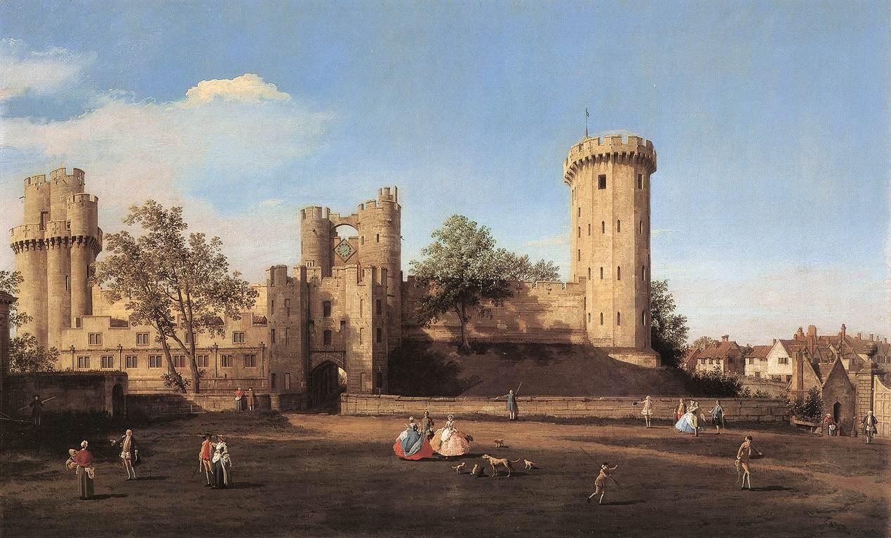 Warwick Castle, the East Front from the Outer Court (1752), painted by Canaletto, Birmingham Museum and Art Gallery, Birmingham. It is little altered today.